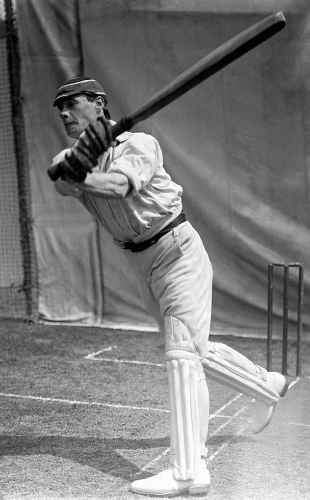 Gilbert Laird Jessop, Gloucestershire and England, circa 1905.